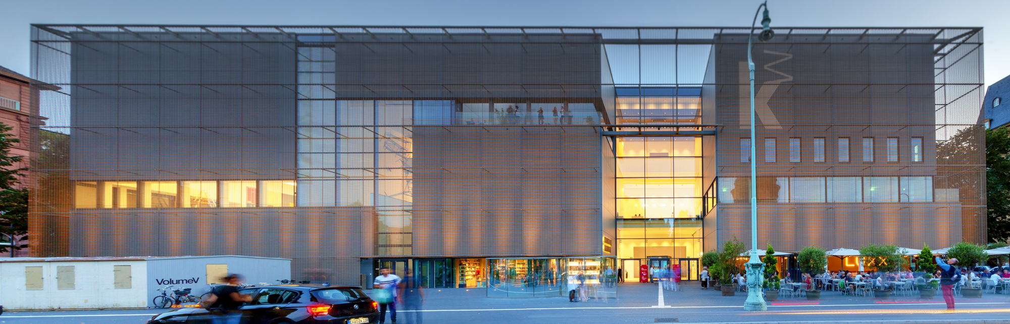 ARTGALLERY MANNHEIM